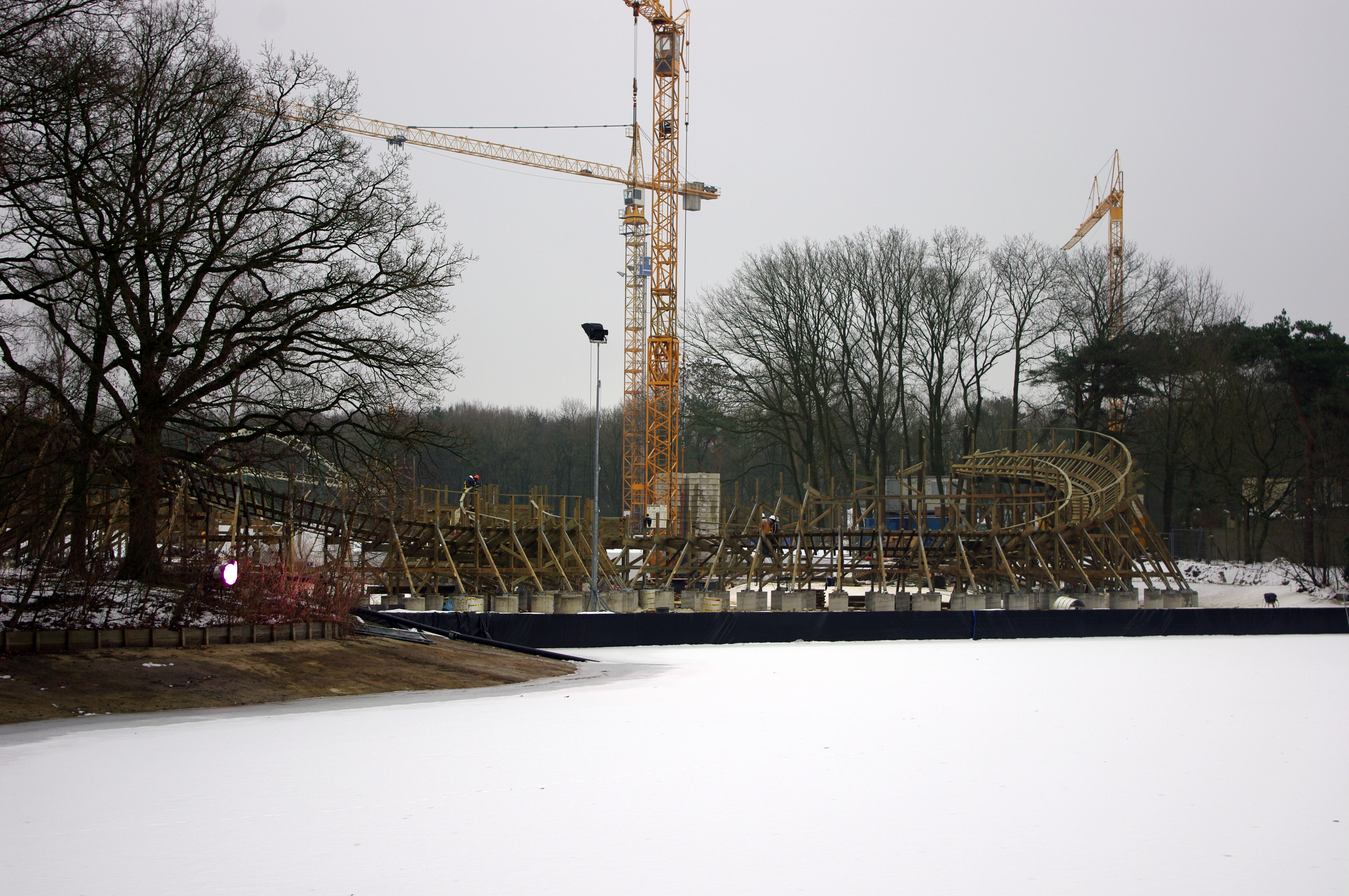 The wooden coaster (build by Great Coasters International) "Joris en de Draak" in the dutch amusement park "Efteling" under construction